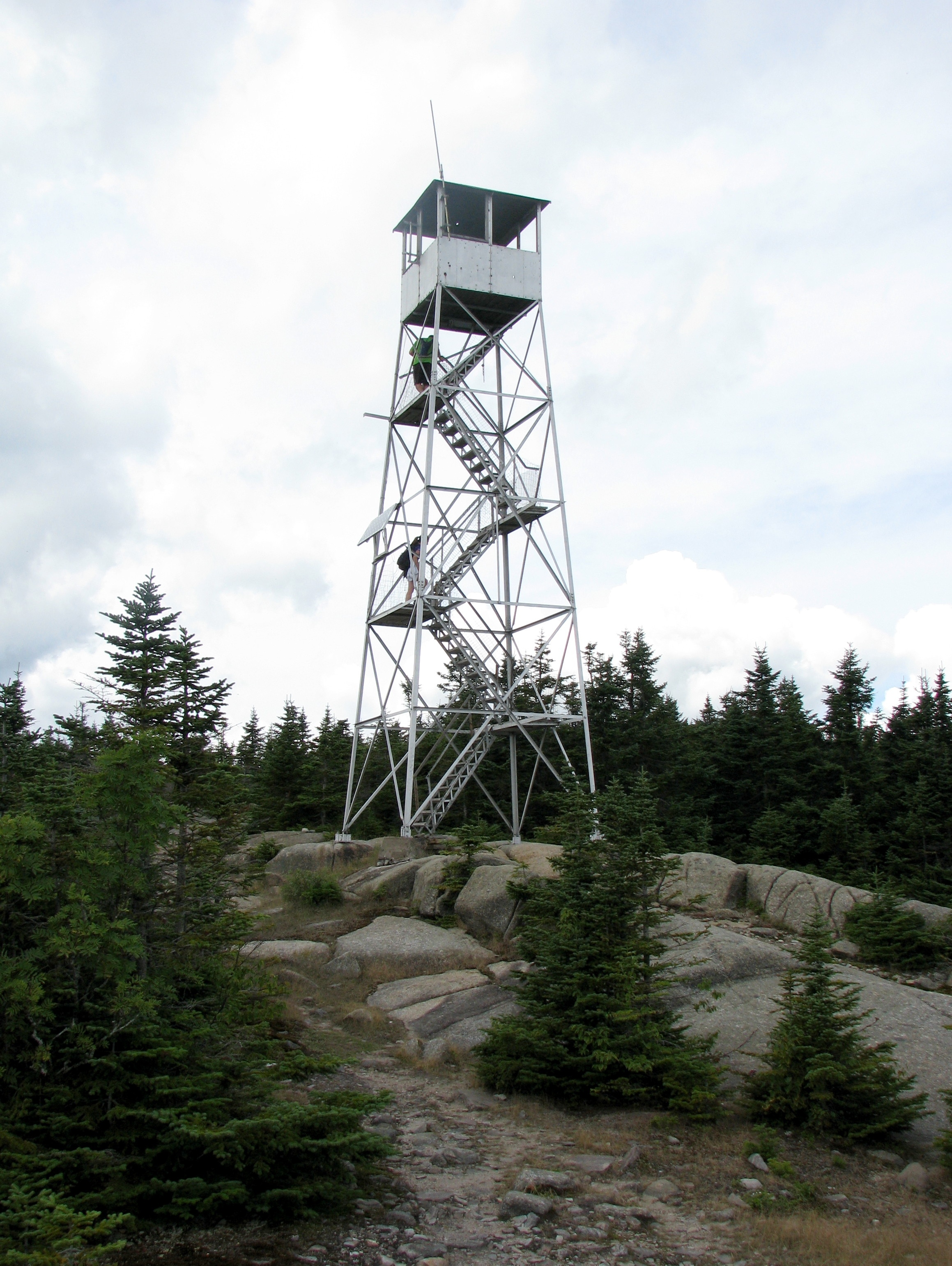 Lyon Mountain Fire Observation Tower on Lyon Mountain, Clinton County, New York